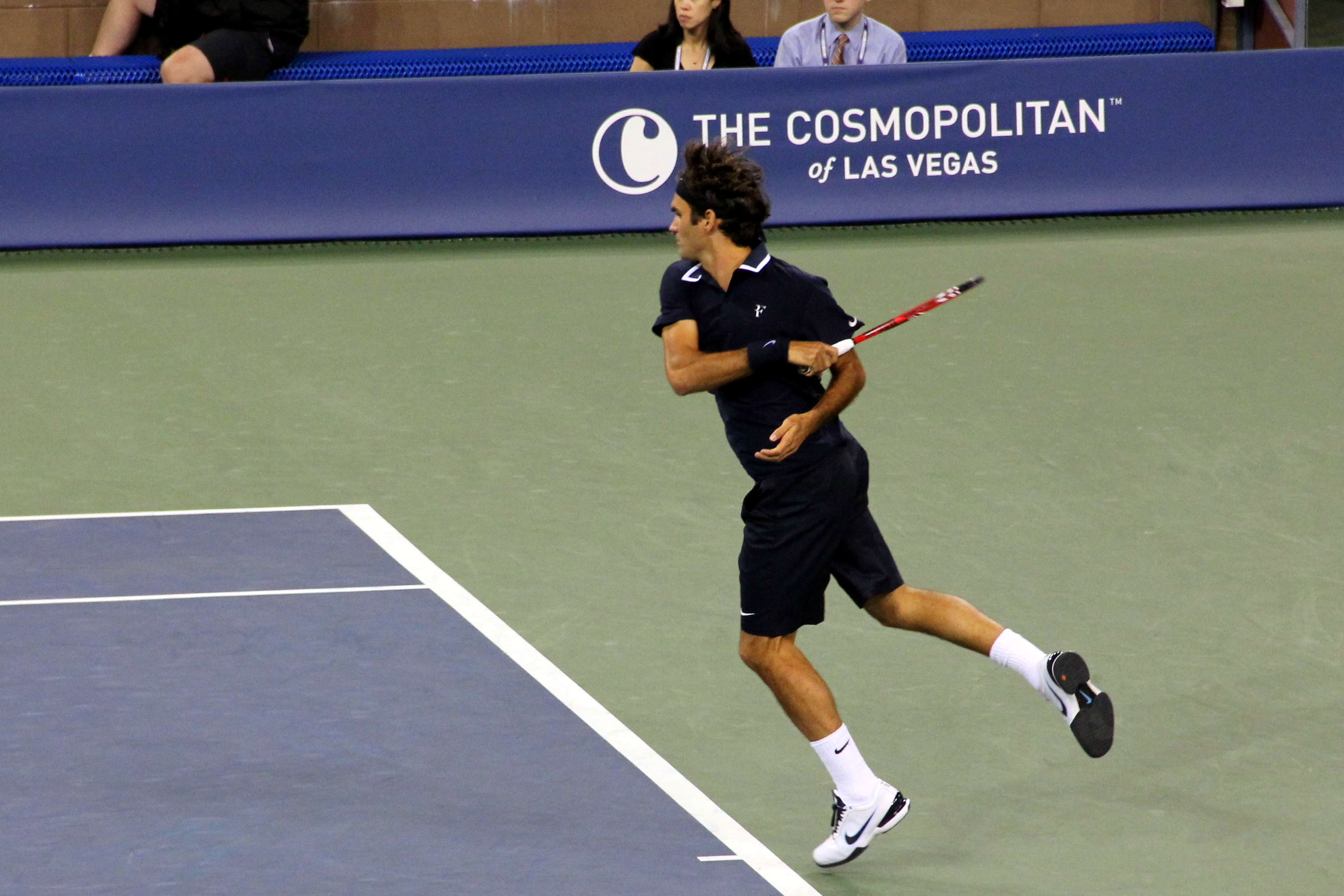 Roger Federer on Wednesday night at the US Open where he won against Robin Soderling. The Cosmopolitan is in New York for the 2010 US Open, inviting attendees and guests to experience signature views from our Overlook and in our custom designed suite with prime-stadium seating. For more information on The Cosmopolitan visit